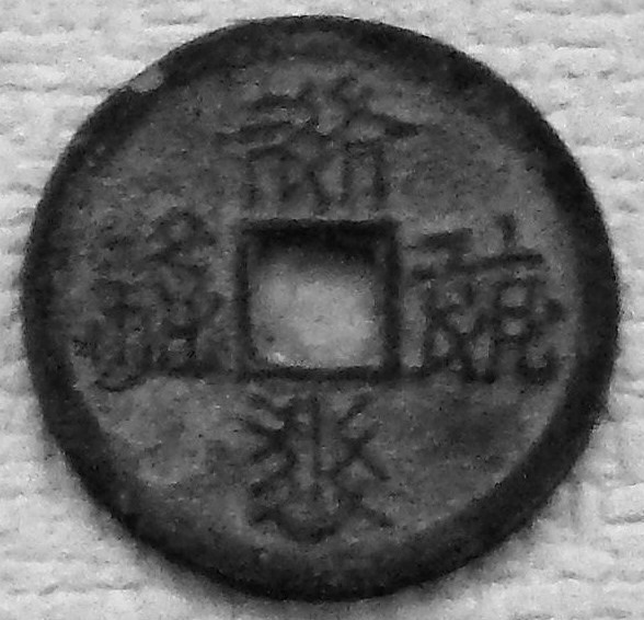 Western Xia coin with Tangut inscription: 𘀗𘑨𘏨𘔭 1tshwu4 2wuq1 1lyq3 1dzen4 = Qiányòu Bǎoqián 乾祐寶錢 "precious coin of the Qianyou 乾祐 era [1171-1193].